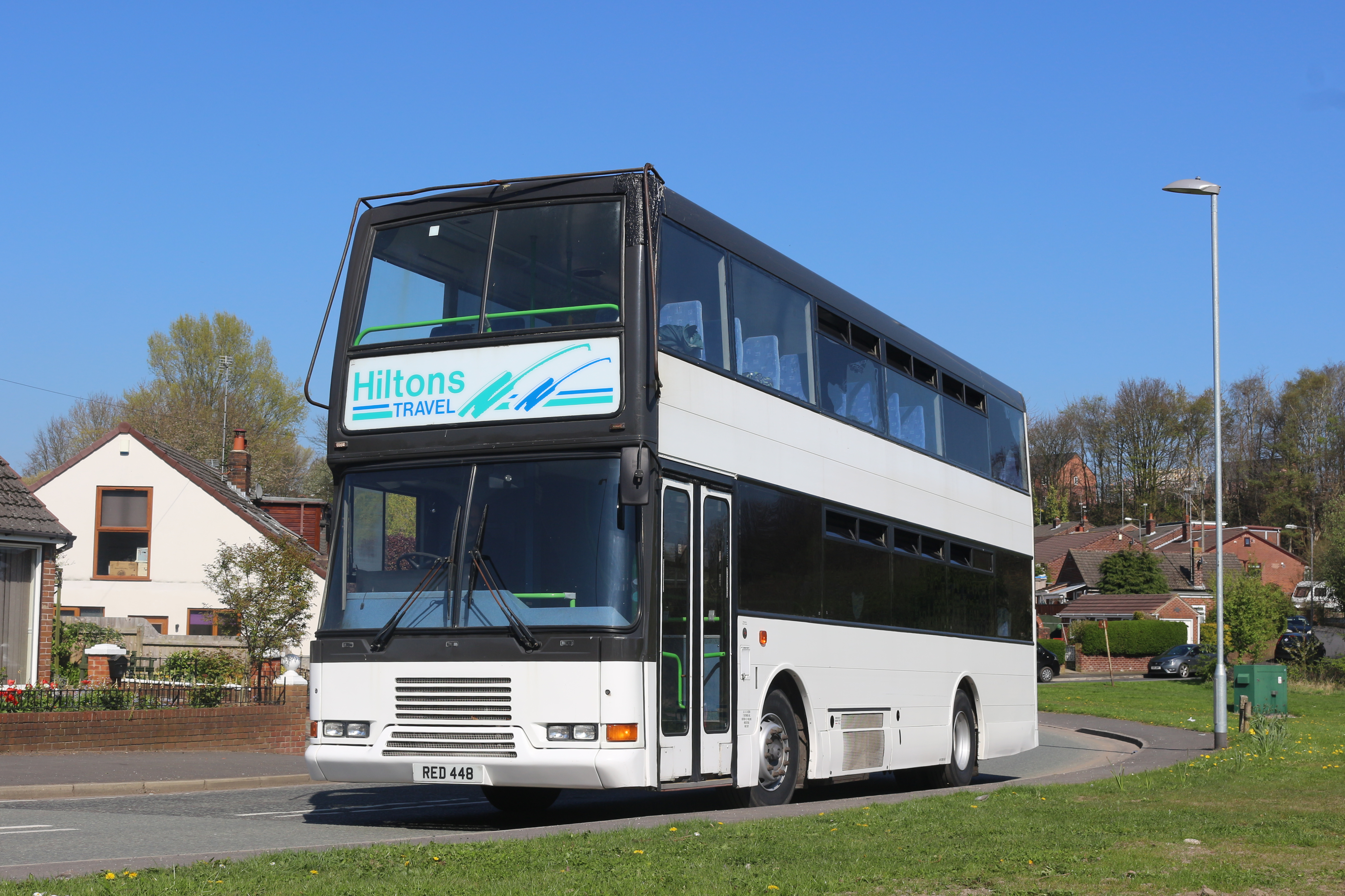 Volvo B10M Citybus / East Lancs Pyoneer New to Nottingham City Transport as 346 FE02 AKX. Ex New Punjab Coaches. 08/04/2017